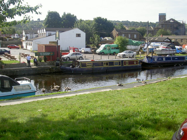 Calder and Hebble canal at Mirfield. Taken from the car park of Lidl Supermarket showing activity on the canal, the Navigation pub is in the background.